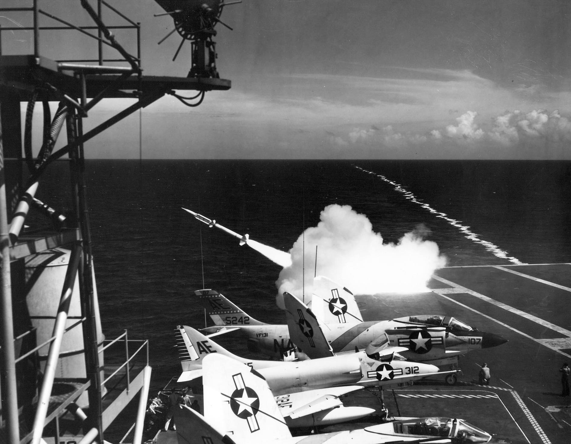 A RIM-2 Terrier surface-to-air missile is fired by the U.S. Navy aircraft carrier USS Constellation (CVA-64) during her shakedown cruise off Puerto Rico on 17 April 1962. In the forground are a Douglas A4D-2 Skyhawk (BuNo 142885) from Attack Squadron 133 (VA-133) "Blue Knights" and a McDonnell F3H-2 Demon (BuNo 145242) from Fighter Squadron 131 (VF-131) "Nightcappers". Both squadrons and their parent Carrier Air Group 13 (CVG-13, tail code "AE") were established on 21 August 1961 and disestablished again on 1 October 1962. The "AE" tail code was afterwards assigned to CVG-6.